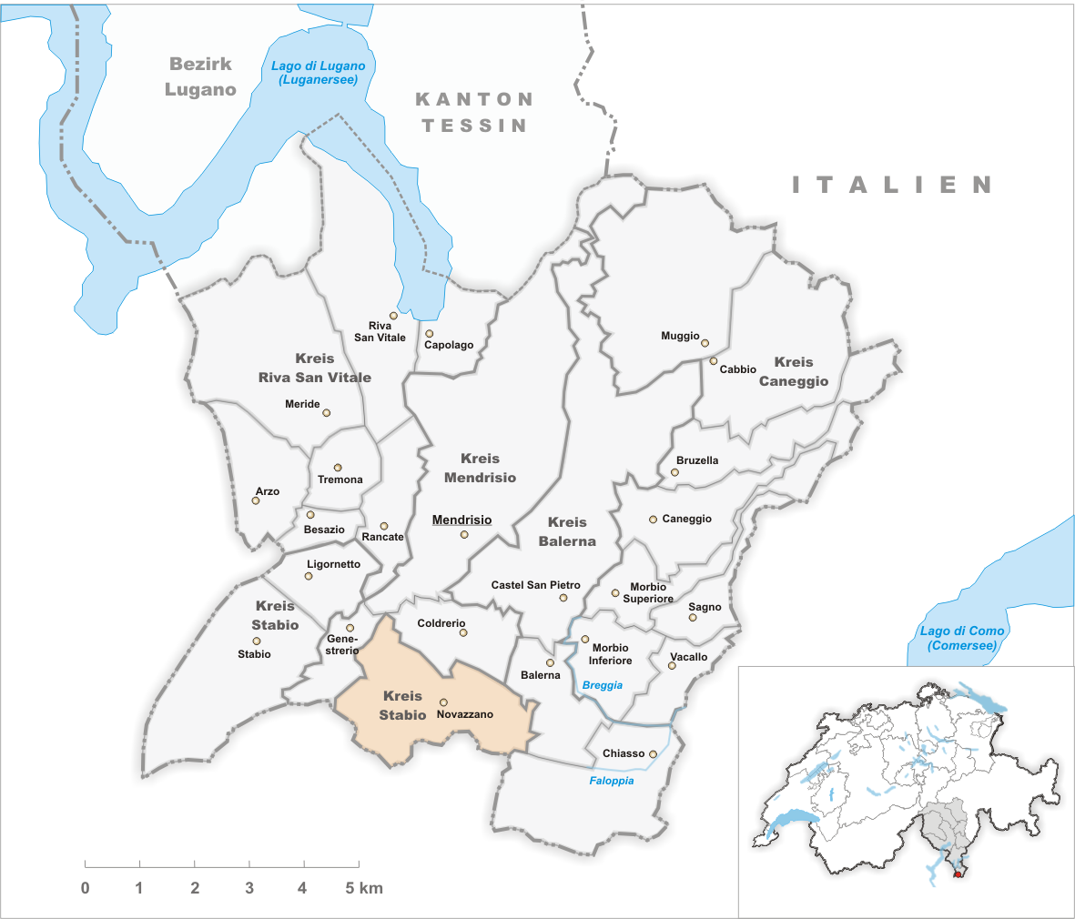 Municipality Muggio